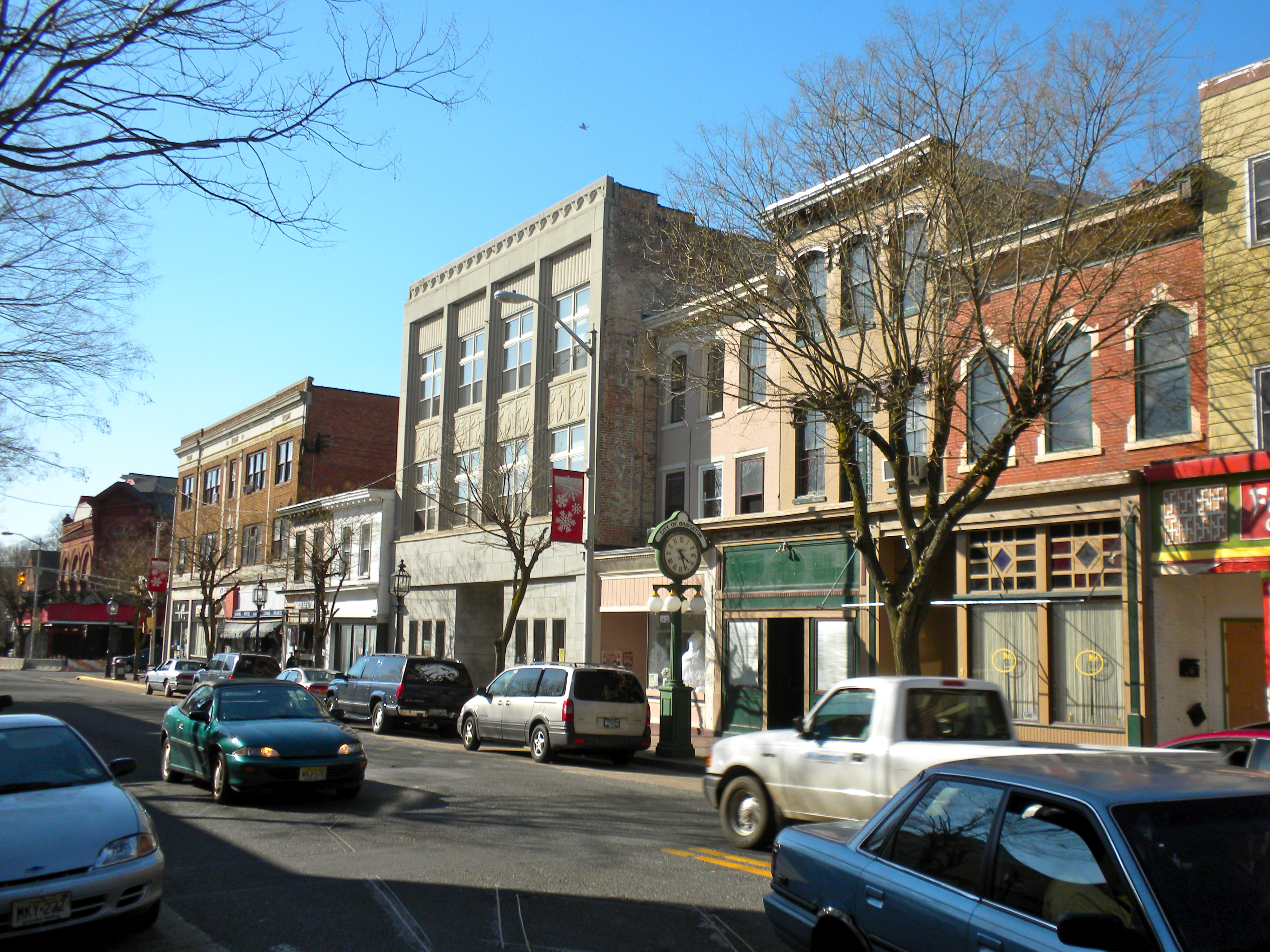 Downtown Bridgeton, New Jersey along Commerce Street. As Bridgeton Historic District it has been on the NRHP since October 29, 1982. The HD is roughly bounded by RR Tracks, South Ave., Lake, Commerce, Water, Belmont, Cohensey, and Penn Sts. (essentially downtown and north and south of downtown along the river).